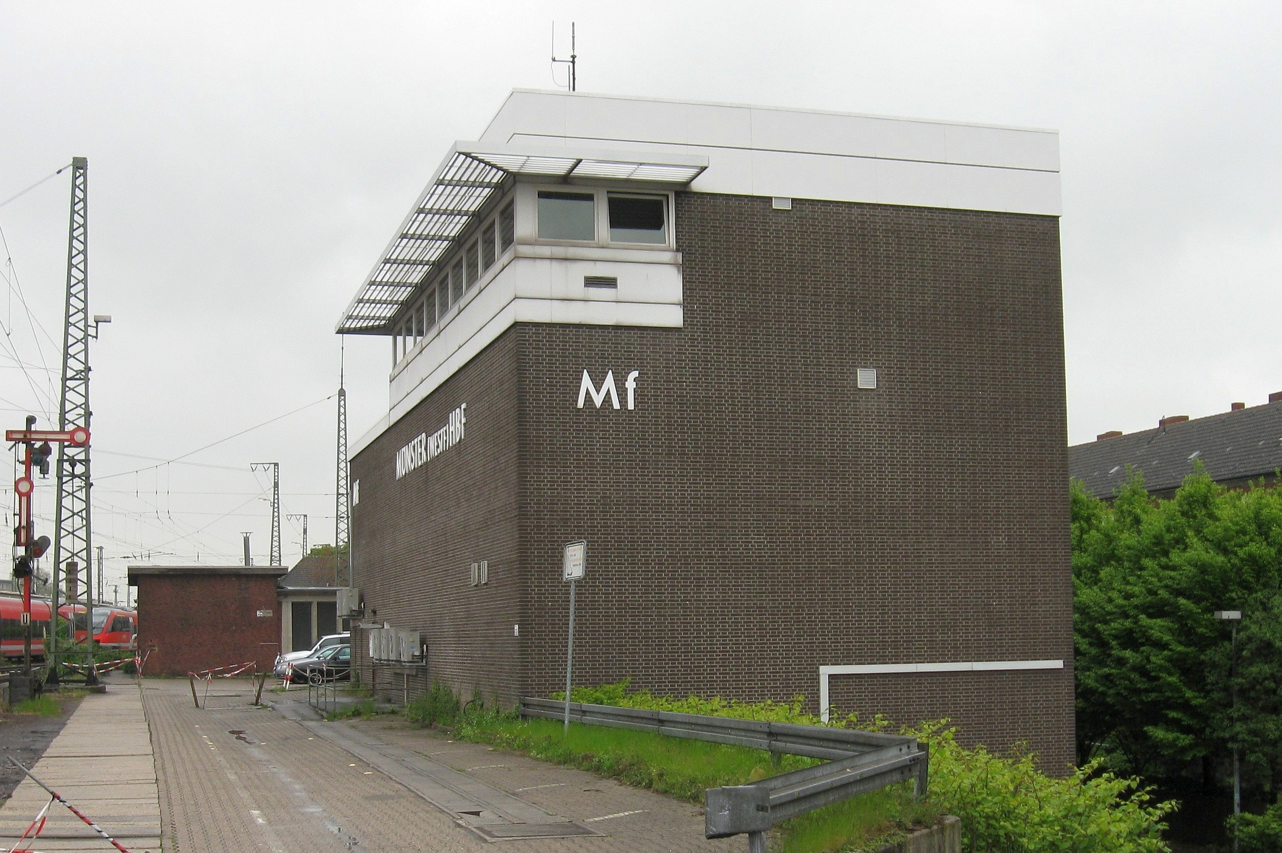 Münster Central Station signal tower